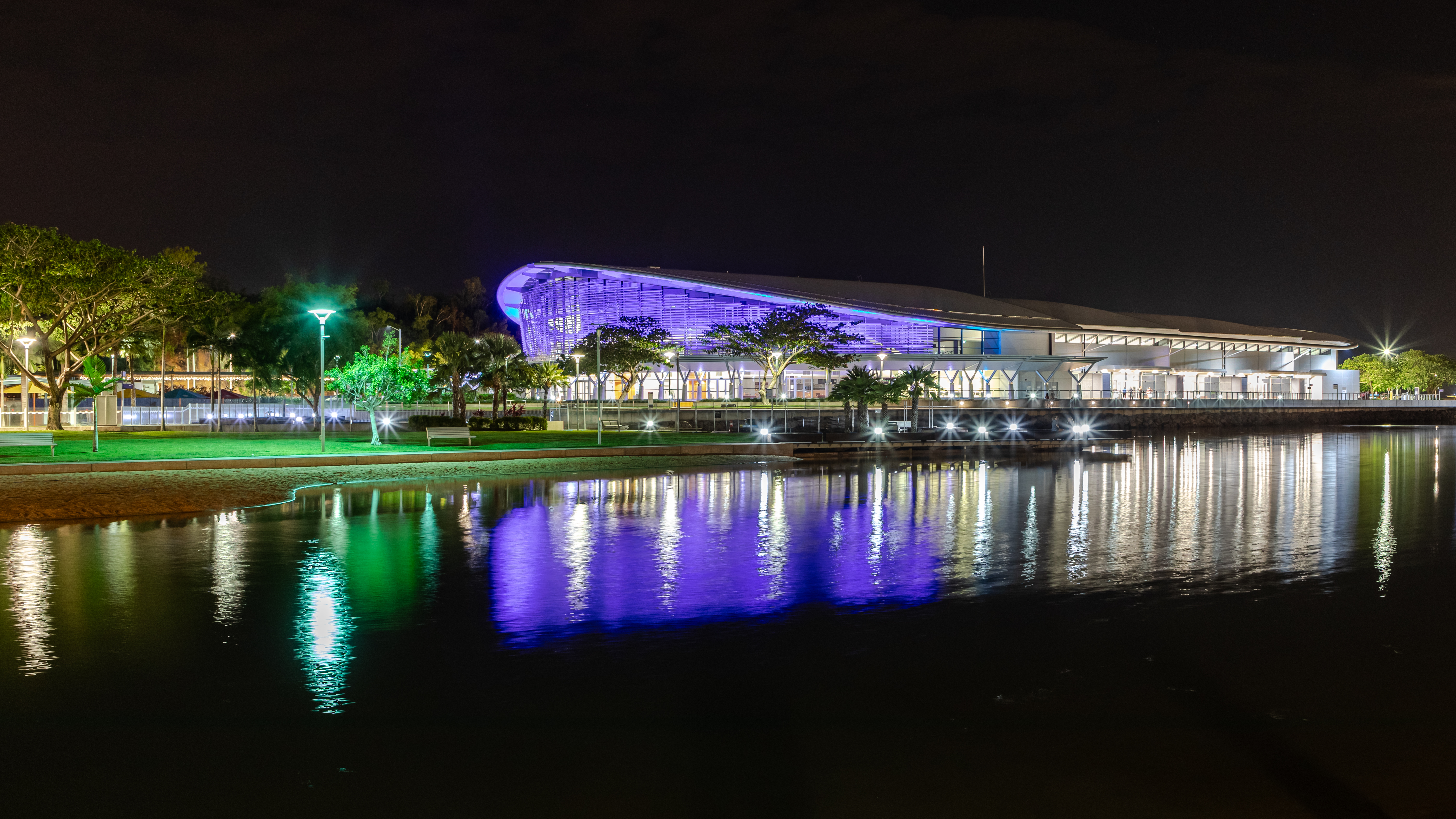 Darwin Waterfront and Convention centre, Darwin, Northern Territory, Australia